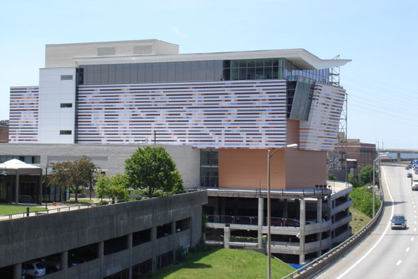 Muhammad Ali Center in Louisville, Kentucky, image by user merfam on Flickr [1] using a compatible Creative Commons license. I reduced and cropped the image, and I release my changes under the same license.